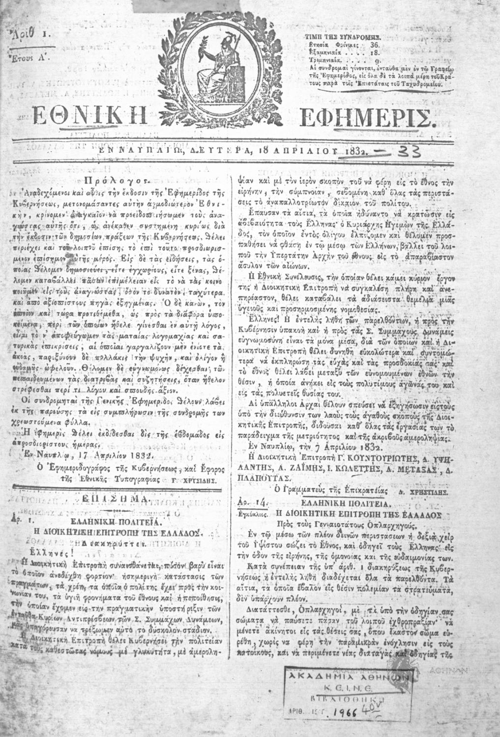 The first page of the Ethniki Efimeris (Εθνική Εφημερίς), official journal of the Greek State in 1832 - 1833